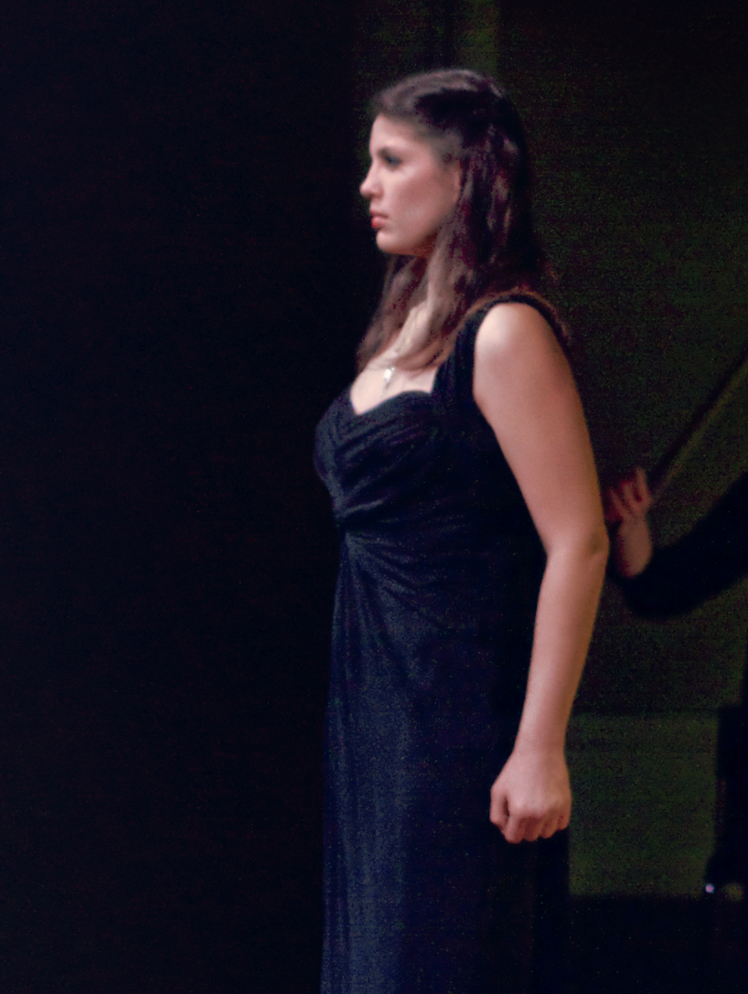 Soprano Megan Marie Hart